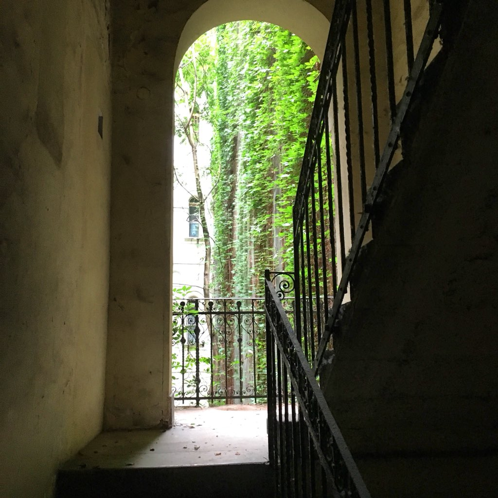 Adolf Greiner's apartment building at Horanszky utca: the servants's stairwell